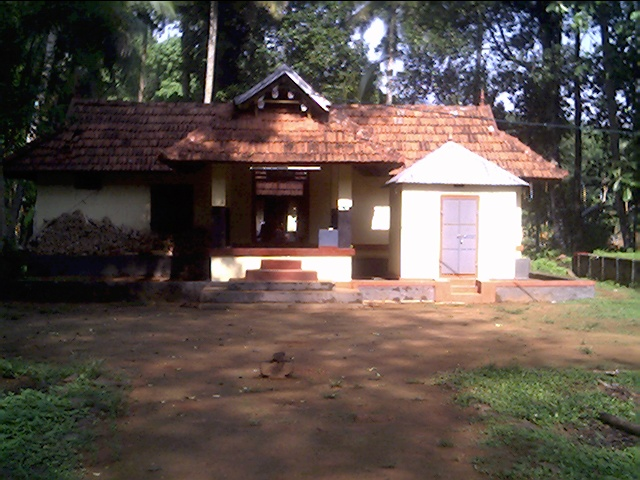 Arumanoor Tapuzha sreekrishna swami temple and Cheruvallikavu Bhagavathi Temple.